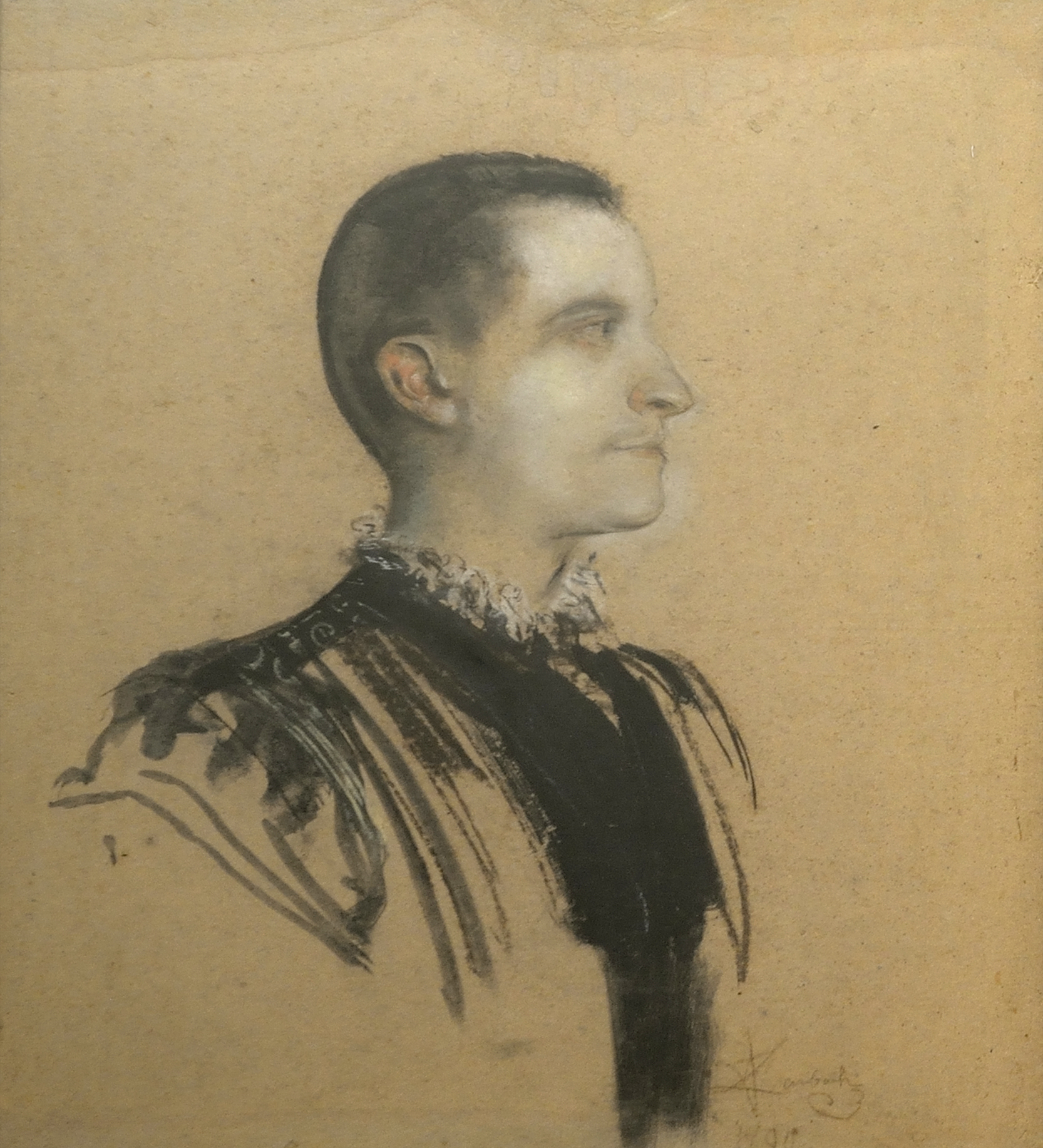 Portrait of Giorgio Franchetti 1890 by Franz von Lenbach in the Galleria Franchetti,Ca' d'Oro, Venice.